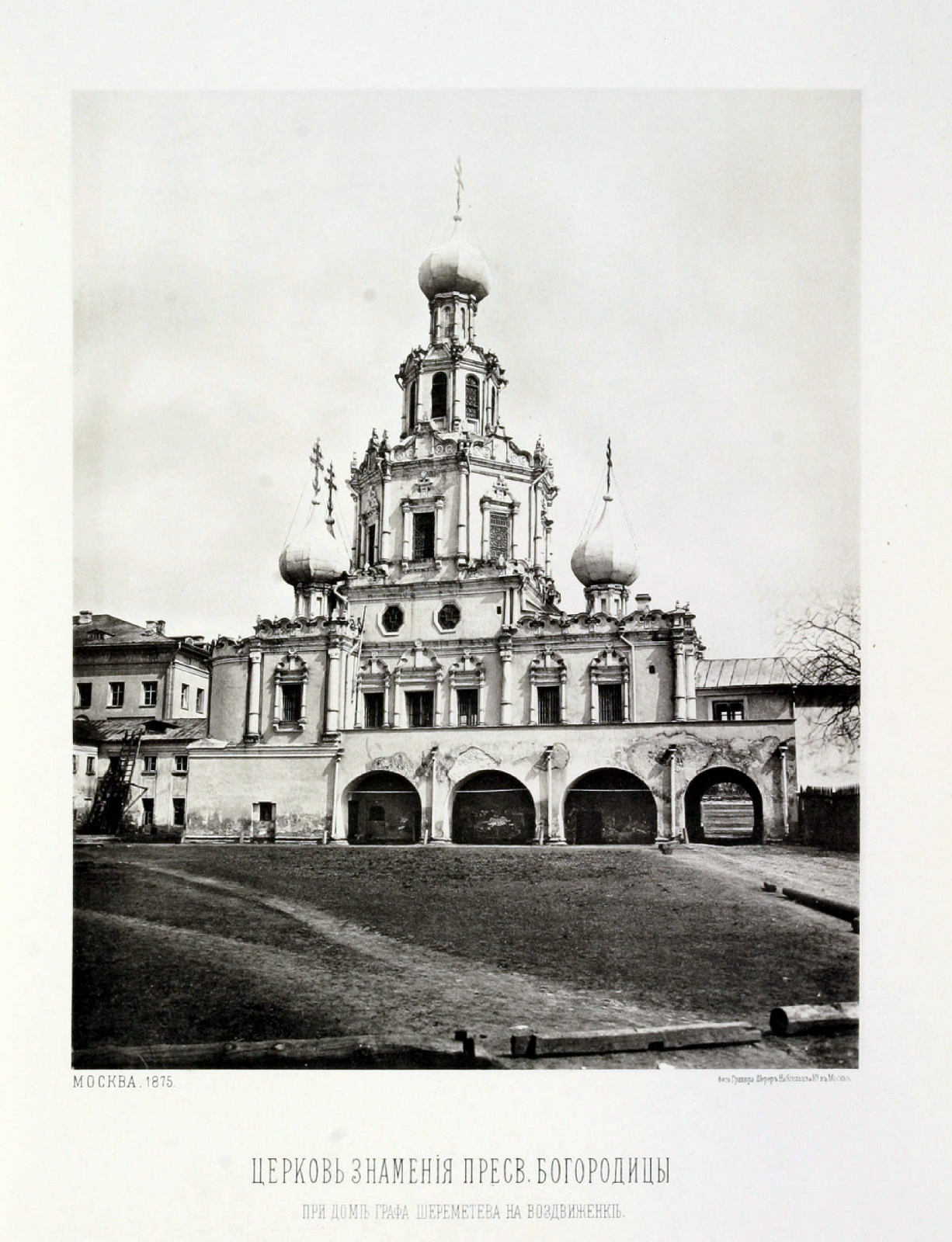 Plate 51: Church of Theotokos Orans on Sheremetev's Court, Moscow.